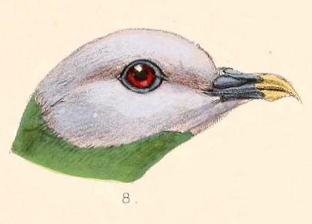 « Ptilinopus hyogaster » = Ptilinopus hyogastrus (Grey-headed Fruit Dove) - head